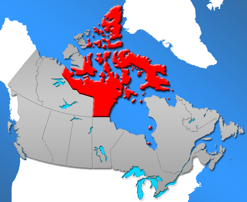 Nunavut Territory in Canada